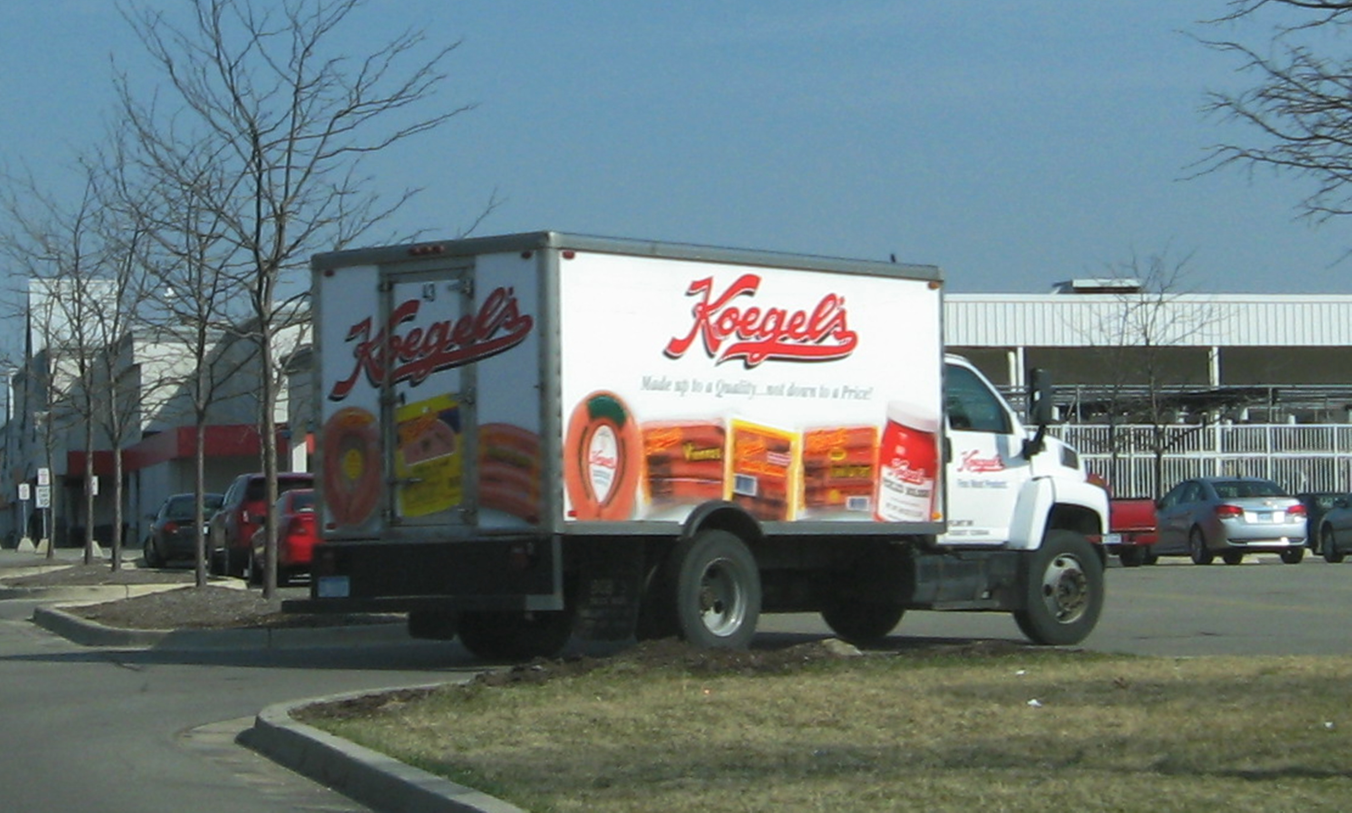 Koegel Meat Company delivery truck, Meijer Shopping Center, Carpenter Road, Pittsfield Township, Michigan.